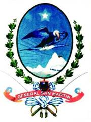 Emblem of General San Martín Partido of Greater Buenos Aires, Argentina.